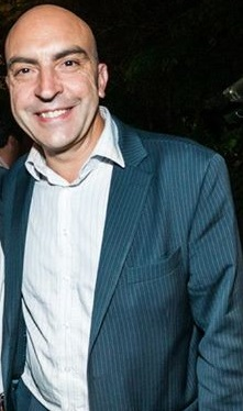 Tomás Bulet- periodista argentino